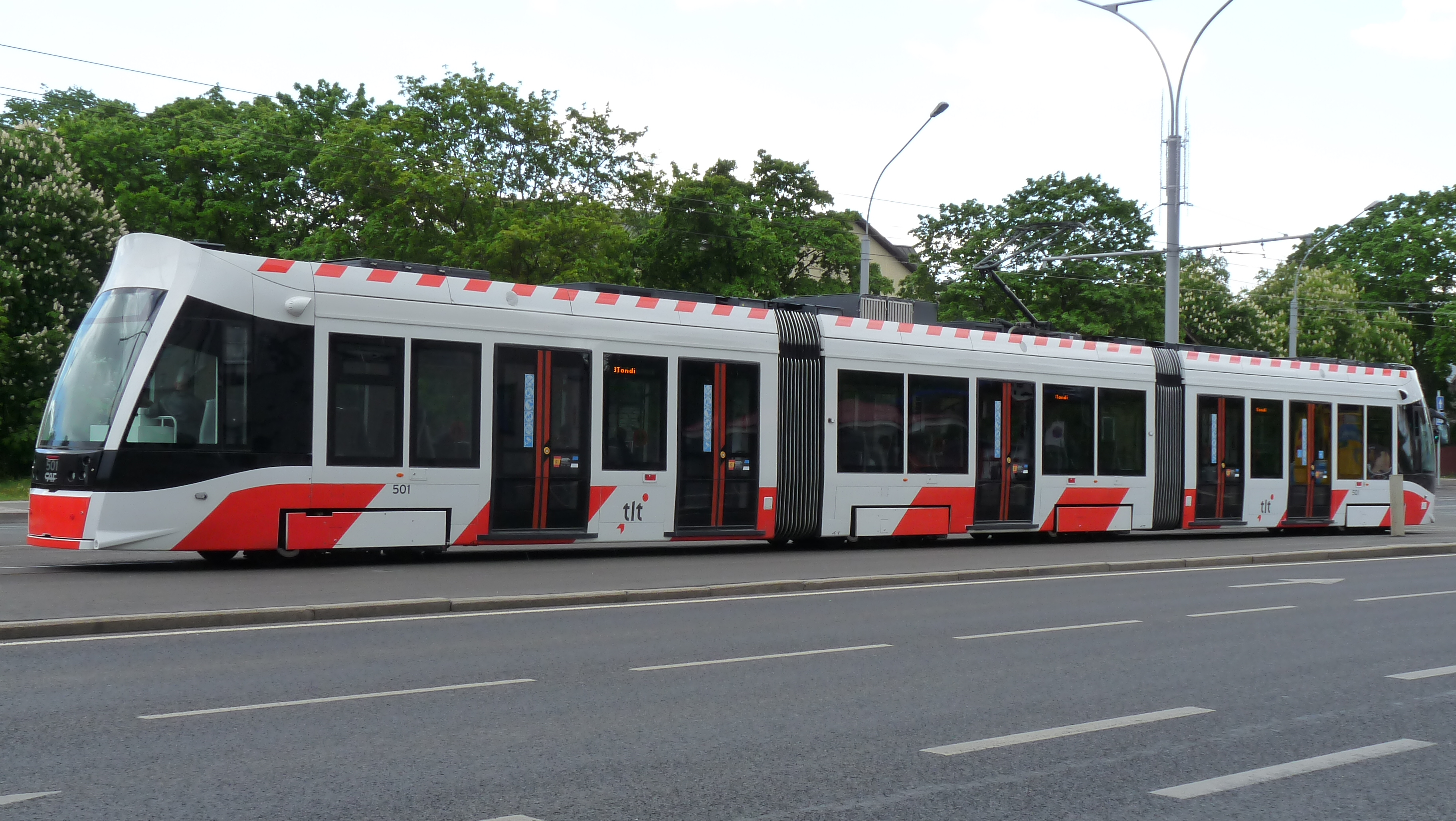 CAF tram in Tallinn, Estonia